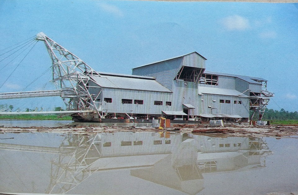 Tin Dredge no7 owned by Berjuntai Tin Dredging. Current status: Historical. This dredge has 20-cubic foot buckets and an annual capacity cubic meters ore and can dig to a depth of 130 feet. The cost of the dredge is US$7,650,000.